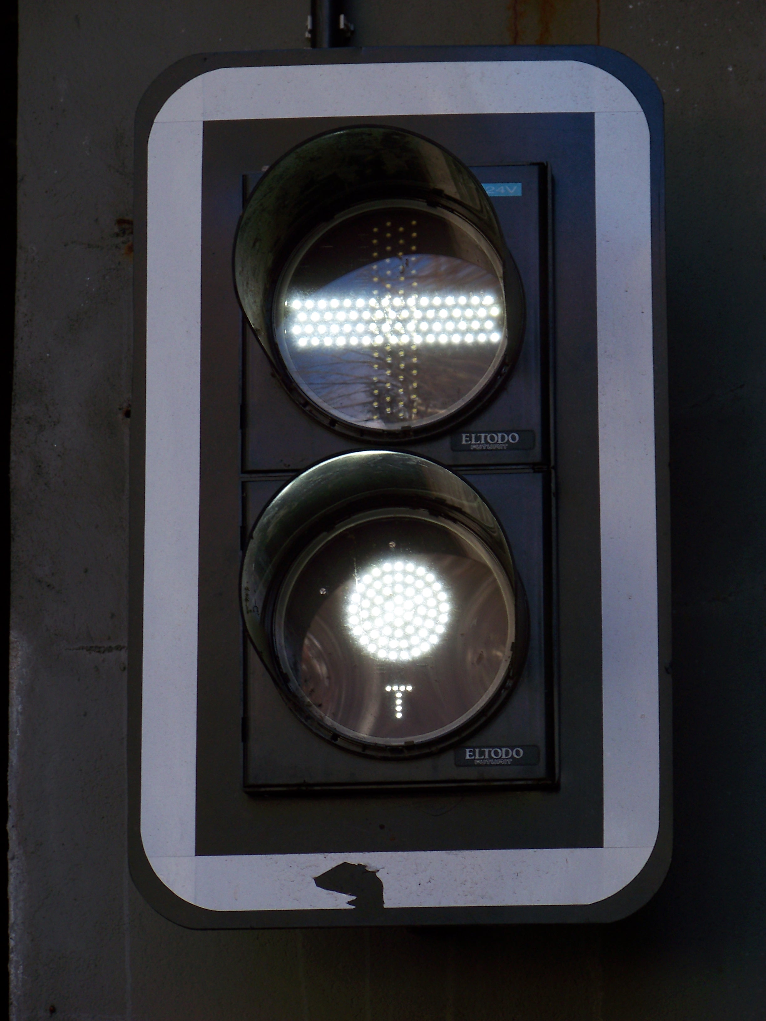 Prague-Střížkov, the Czech Republic. Ďáblice Housing Estate, tram stop Třebenická, a prototype tram signalization.